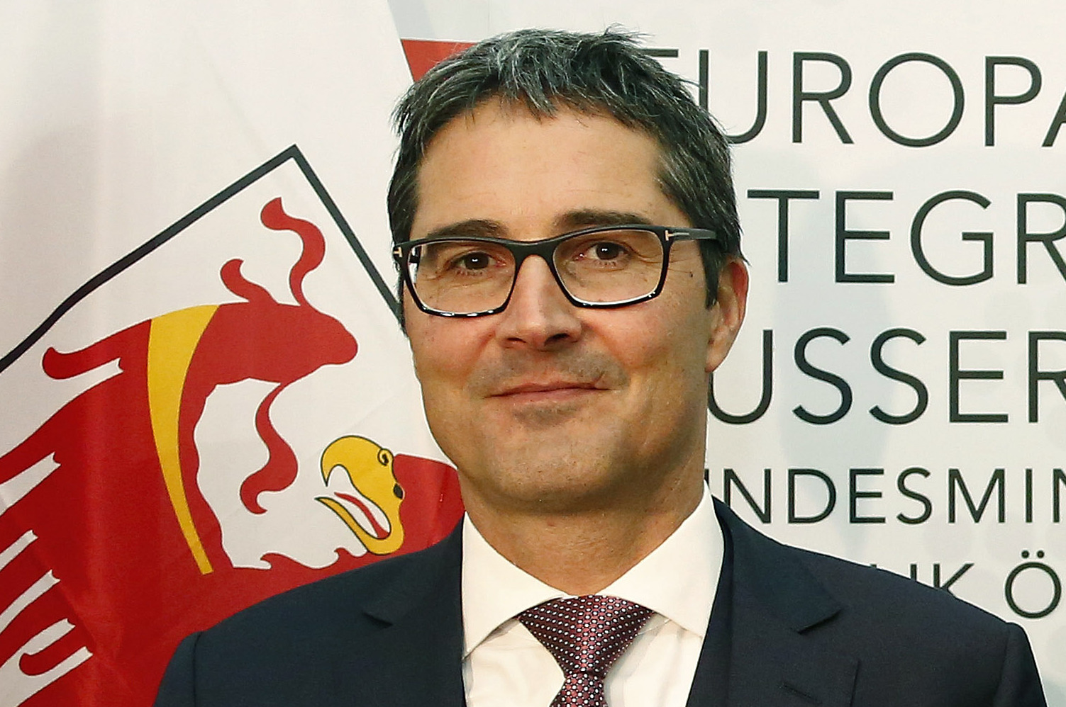 Landeshauptmann Arno Kompatscher. Wien. 23.11.2015